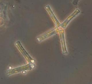 Asterionella formosa infected with Zygorhizidium planktonicum Upper right colonie of four cells is uninfected Lower left colonie of two cells is infected, the lower cell has four sporangia in different levels of maturity. In the upper left cornor is a free swimming zoospore of the fungus.